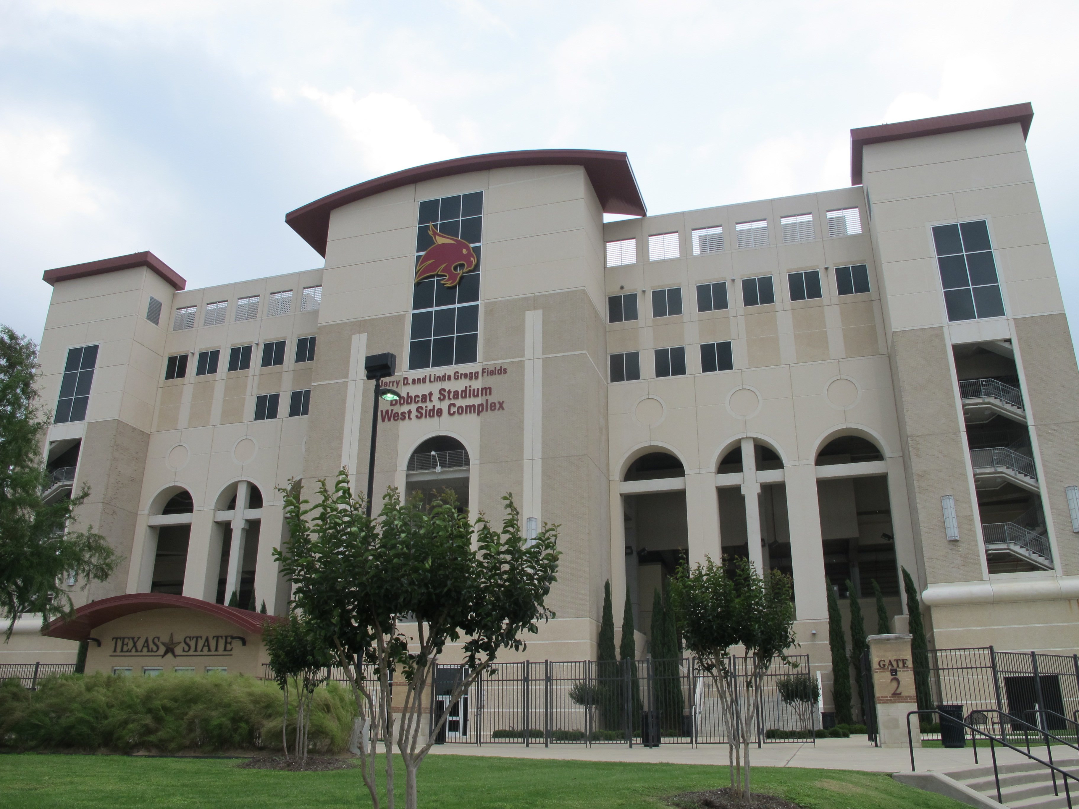 The Main Facade/Entrance to Texas State's Bobcat Stadium